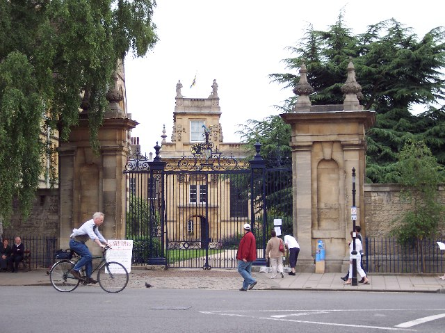 Trinity College, Oxford. Trinity College was founded in 1555 by Sir Thomas Pope. Pope was a Catholic, who had no surviving children, and he hoped that by founding a college, he would be remembered in the prayers of its students. The original foundation provided for a president, twelve fellows, and twelve scholars, and for up to 20 undergraduates. The fellows were required to take holy orders and to remain unmarried * Text courtesy of Wikipedia Trinity_College,_Oxford *